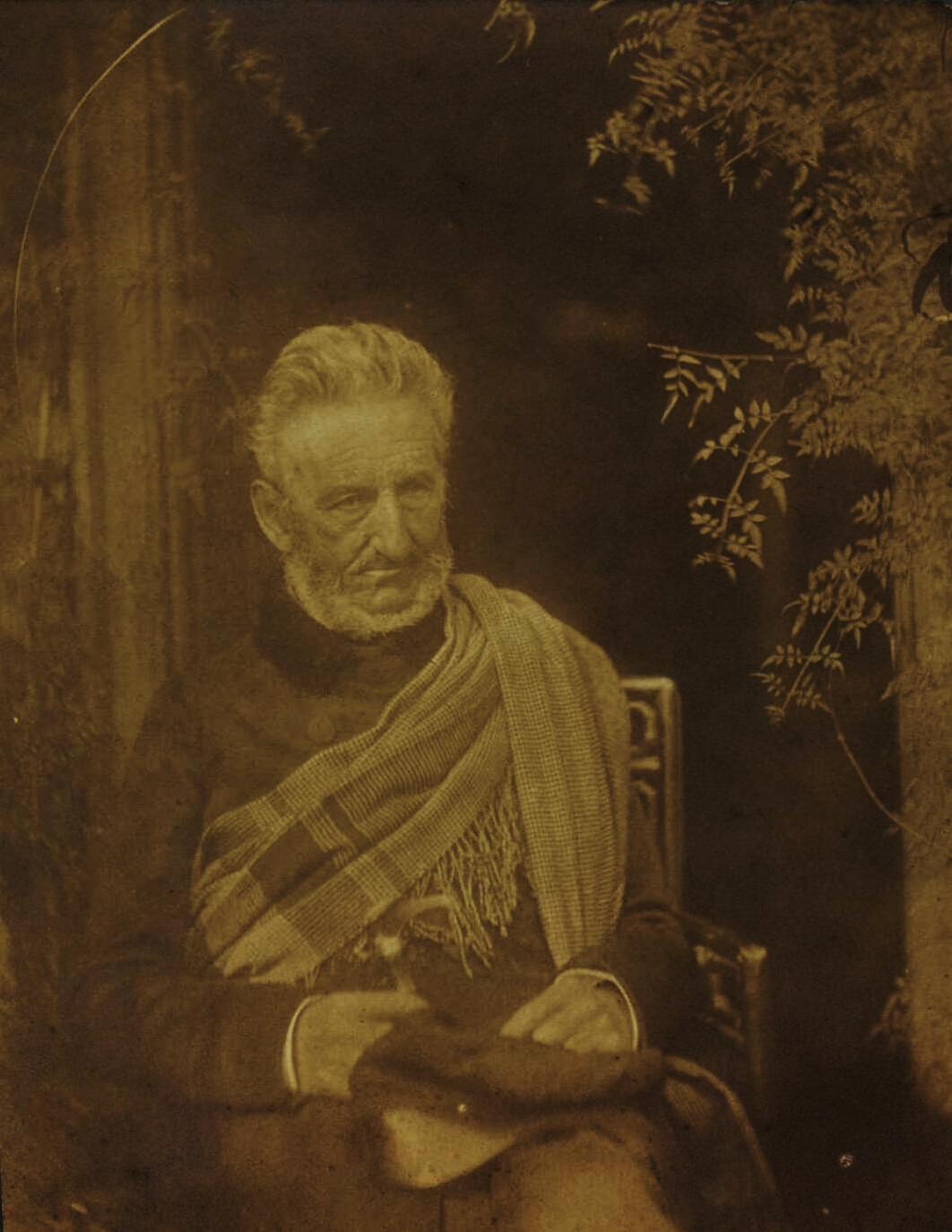 A portrait from the Welsh Portrait Collection at the National Library of Wales. Depicted person: Elijah Waring – Welsh writer